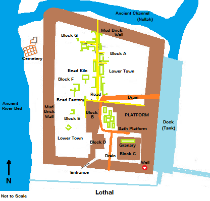 It is a layout plan of archaeological site at Lothal, Gujarat, India. Other information It a plan layout of archaeological site at Lothal, an important indus valley civilization site in Gujarat, India.